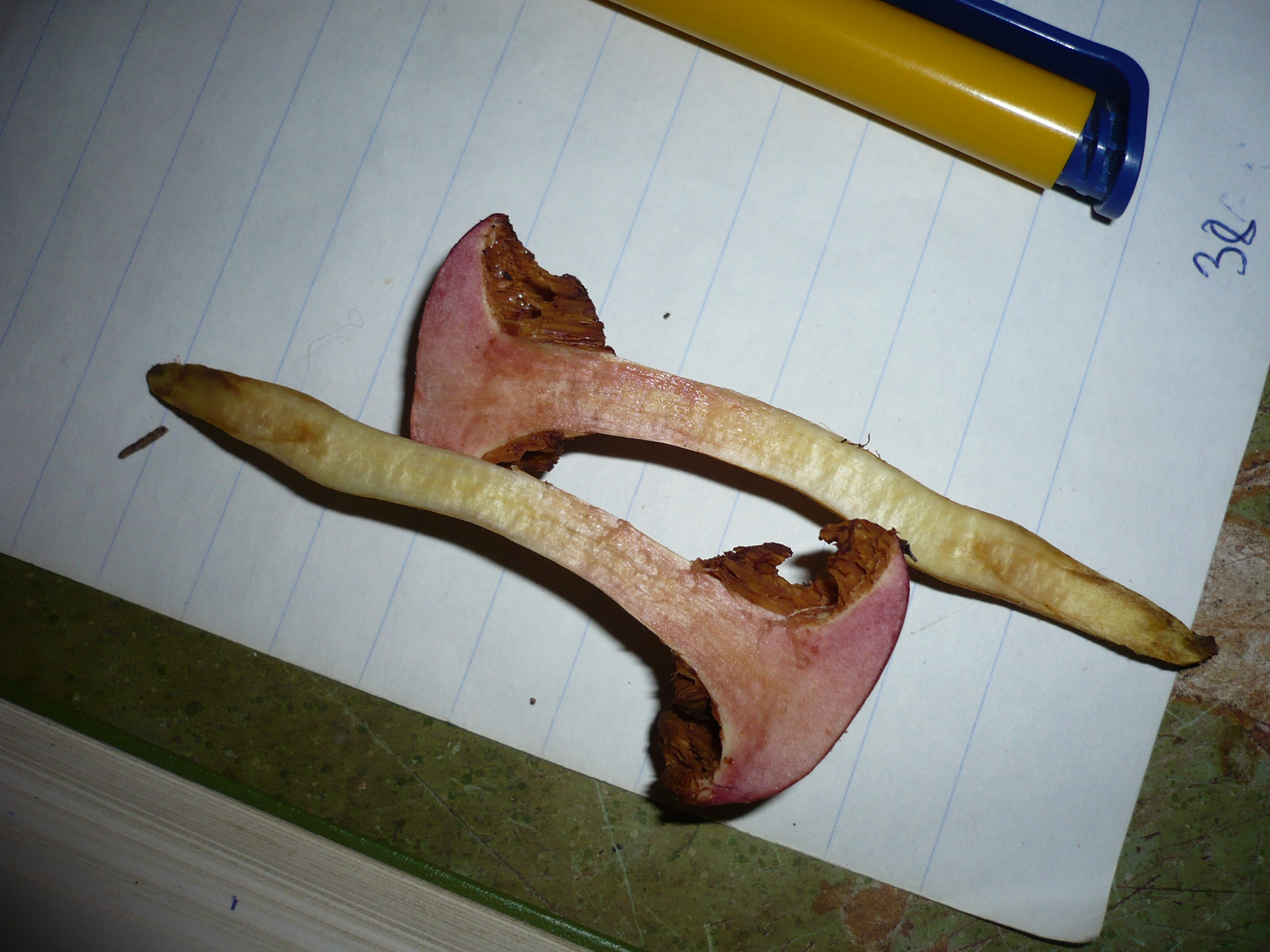 Chalciporus pseudorubinus, Austria